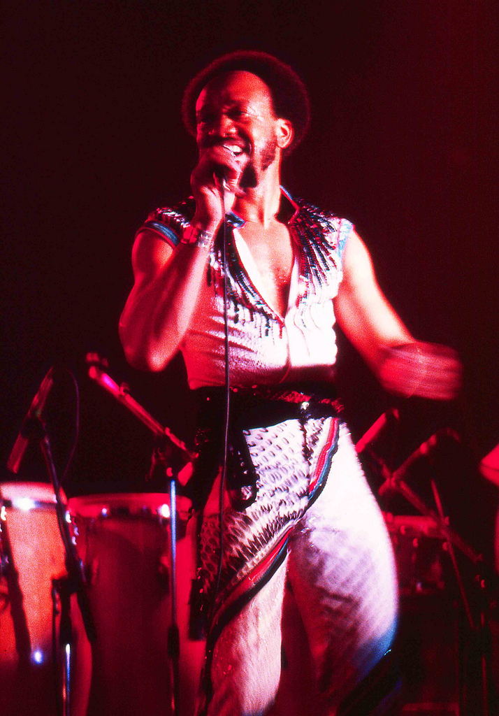 Maurice White performing with Earth, Wind, and Fire at the Ahoy Rotterdam; 1982